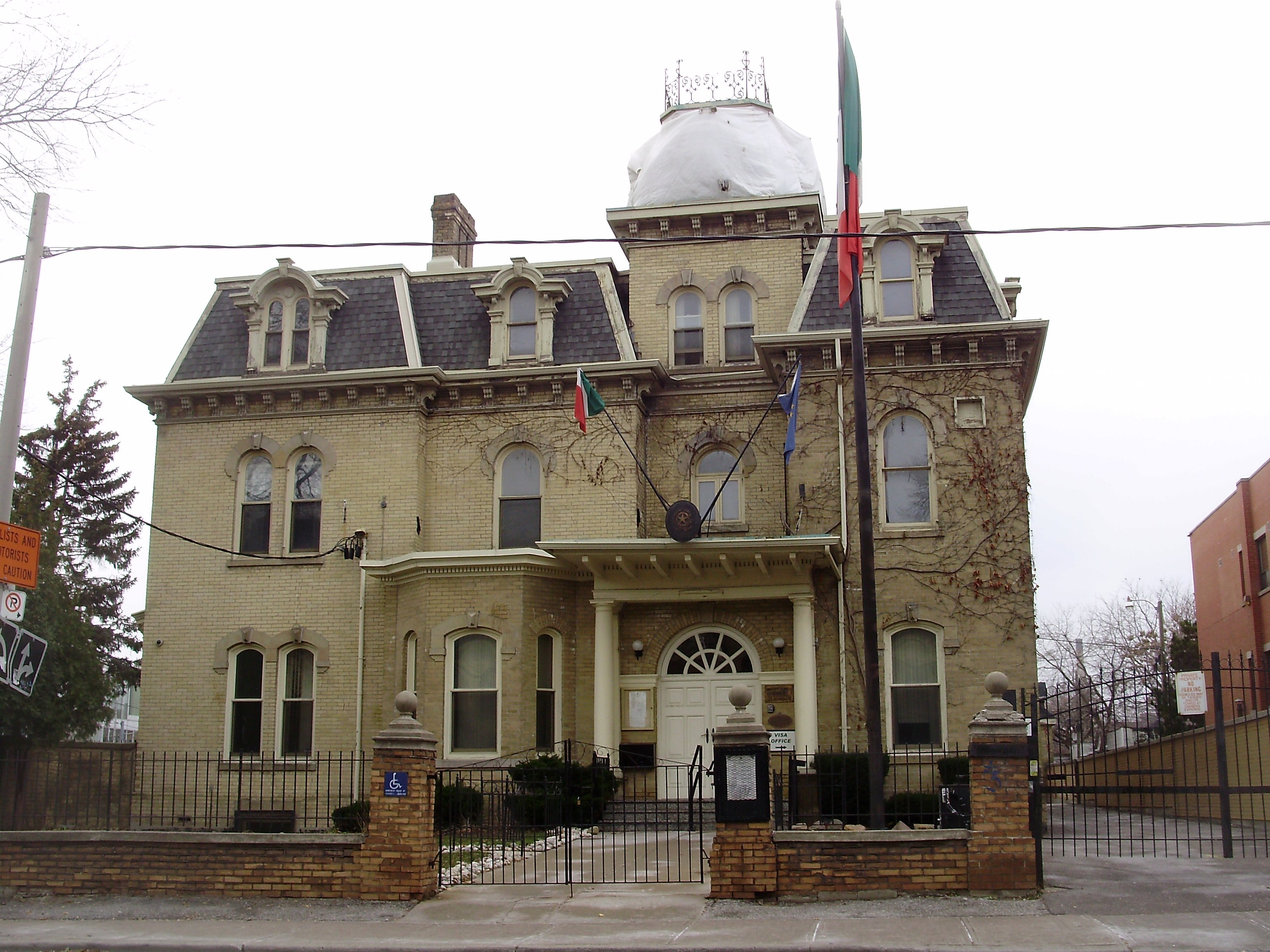 The Consulate General of Italy in Toronto, Ontario, Canada, at 136 Beverly Avenue. Known as the George Beardmore House, or Chudleigh.